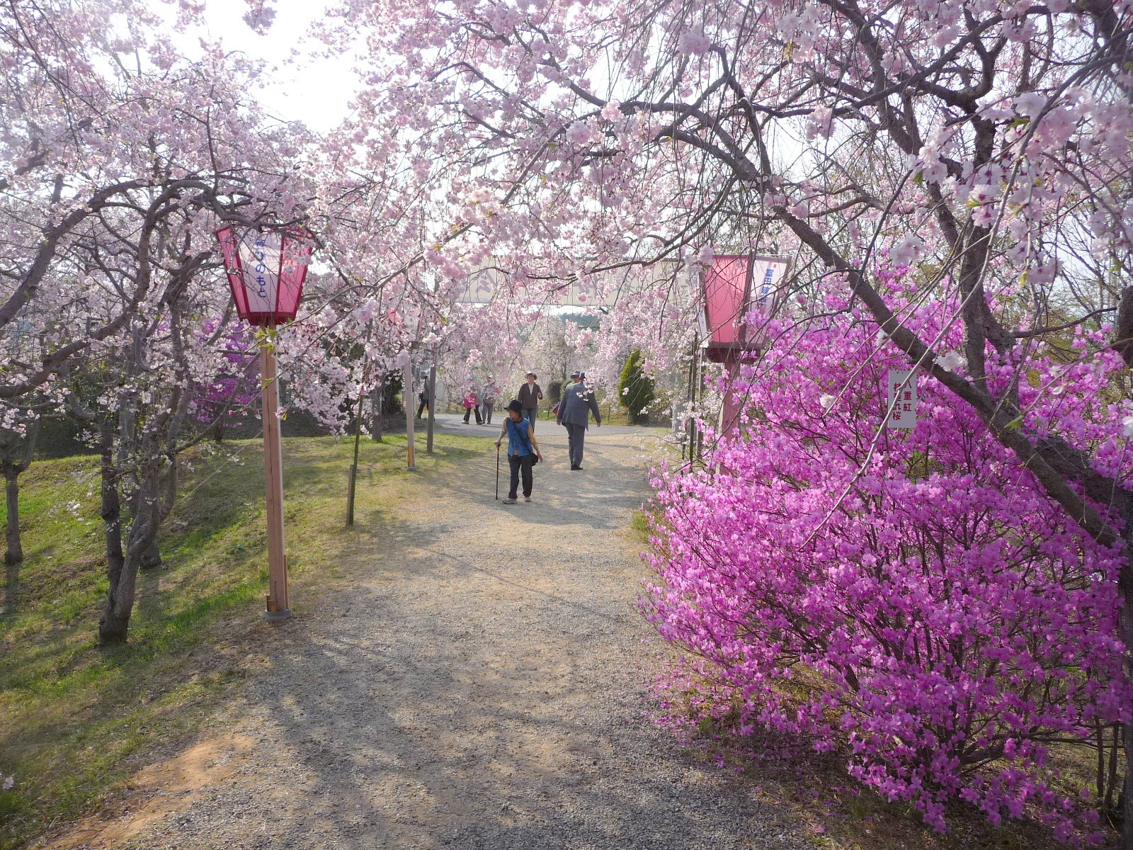 Cherry blossoms at TAKEBEnoMORI Park, in Takebe, Okayama.